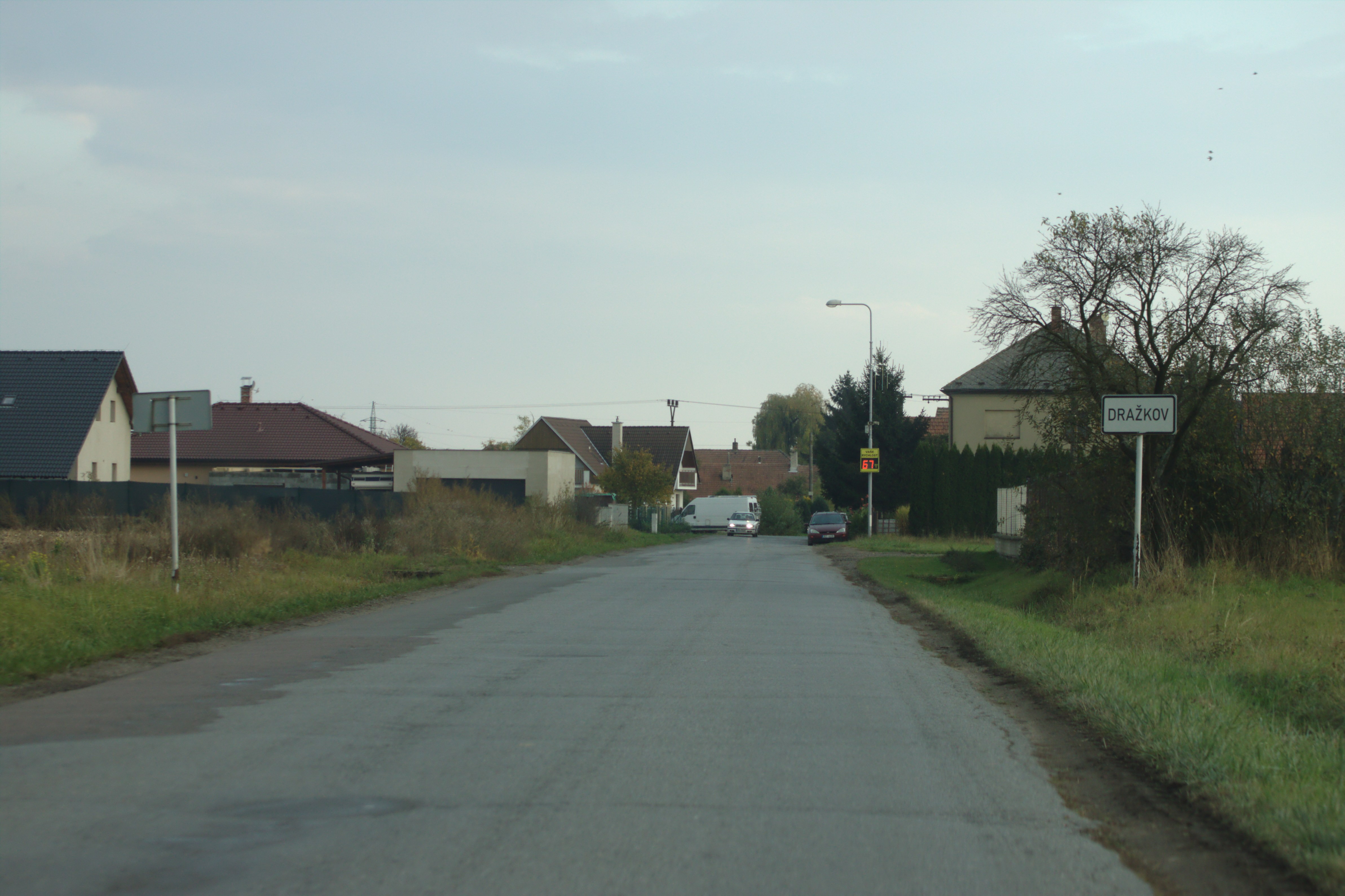 The village of Dražkov near Sezemice, Pardubice Region, CZ